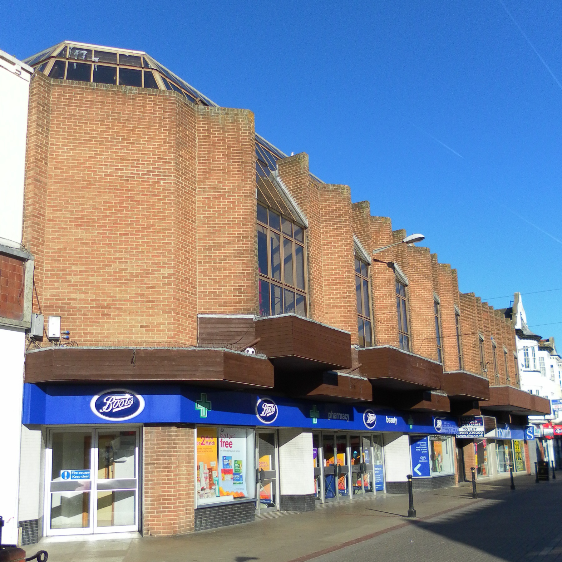 Site of the former parish church of St John the Baptist, London Road, Bognor Regis, Arun District, West Sussex, England. The church, which had a tall tower with a spire and which was designed by Sir Arthur Blomfield, stood here from 1882 to 1972. St Wilfrid's Church (built 1908) is now the town's parish church.